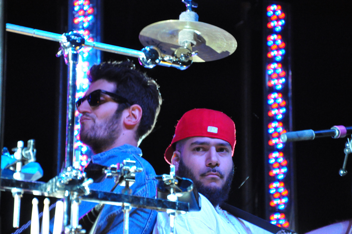 Chromeo at the Monolith Festival in 2009